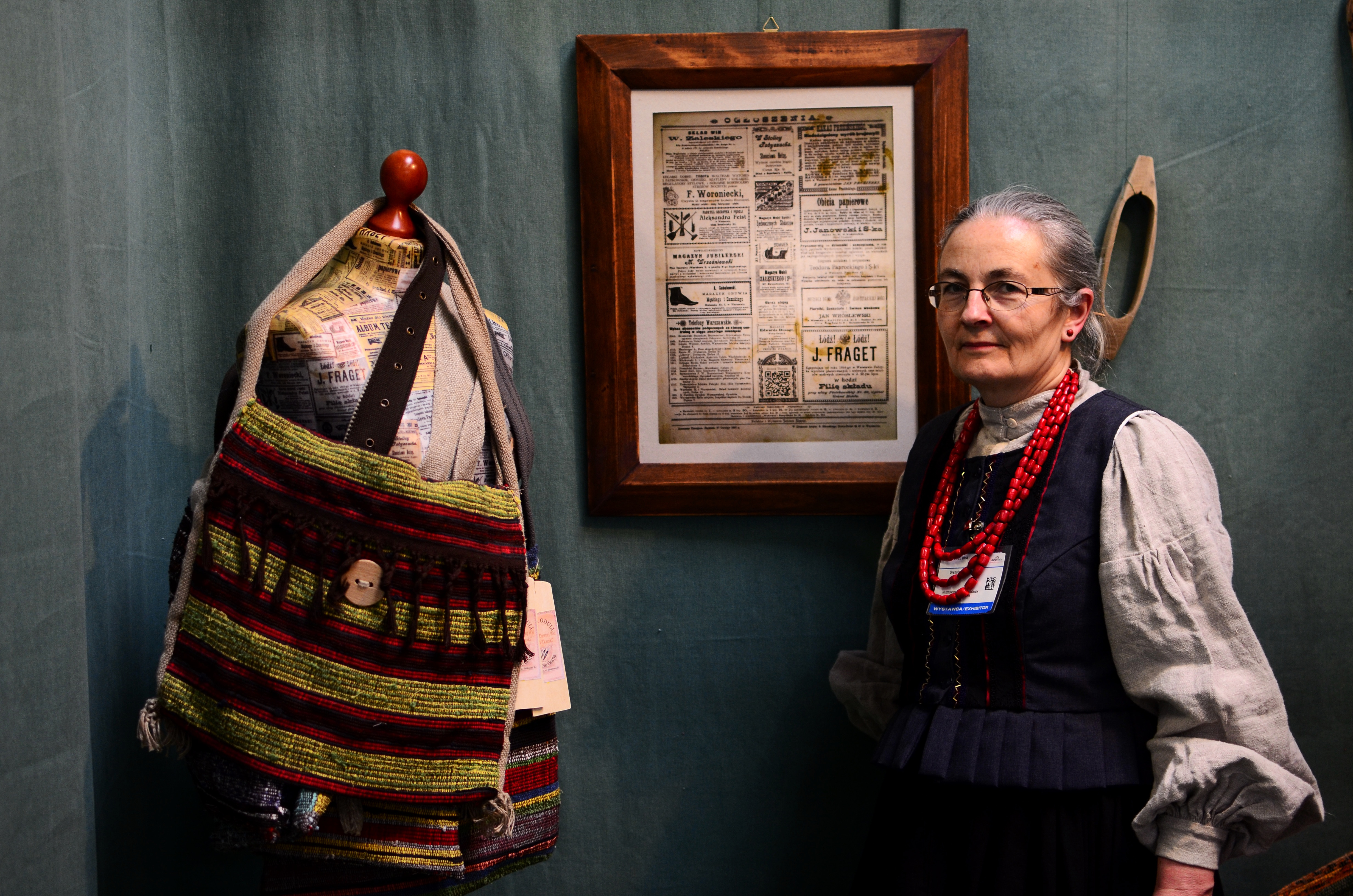 Urszula Wolska, in traditional Polish outfit from XIX, at AgroTravel Fair in Kielce 2014 (There is hidden QR-Code in the picture)